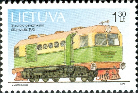 Stamps of Lithuania, 2002